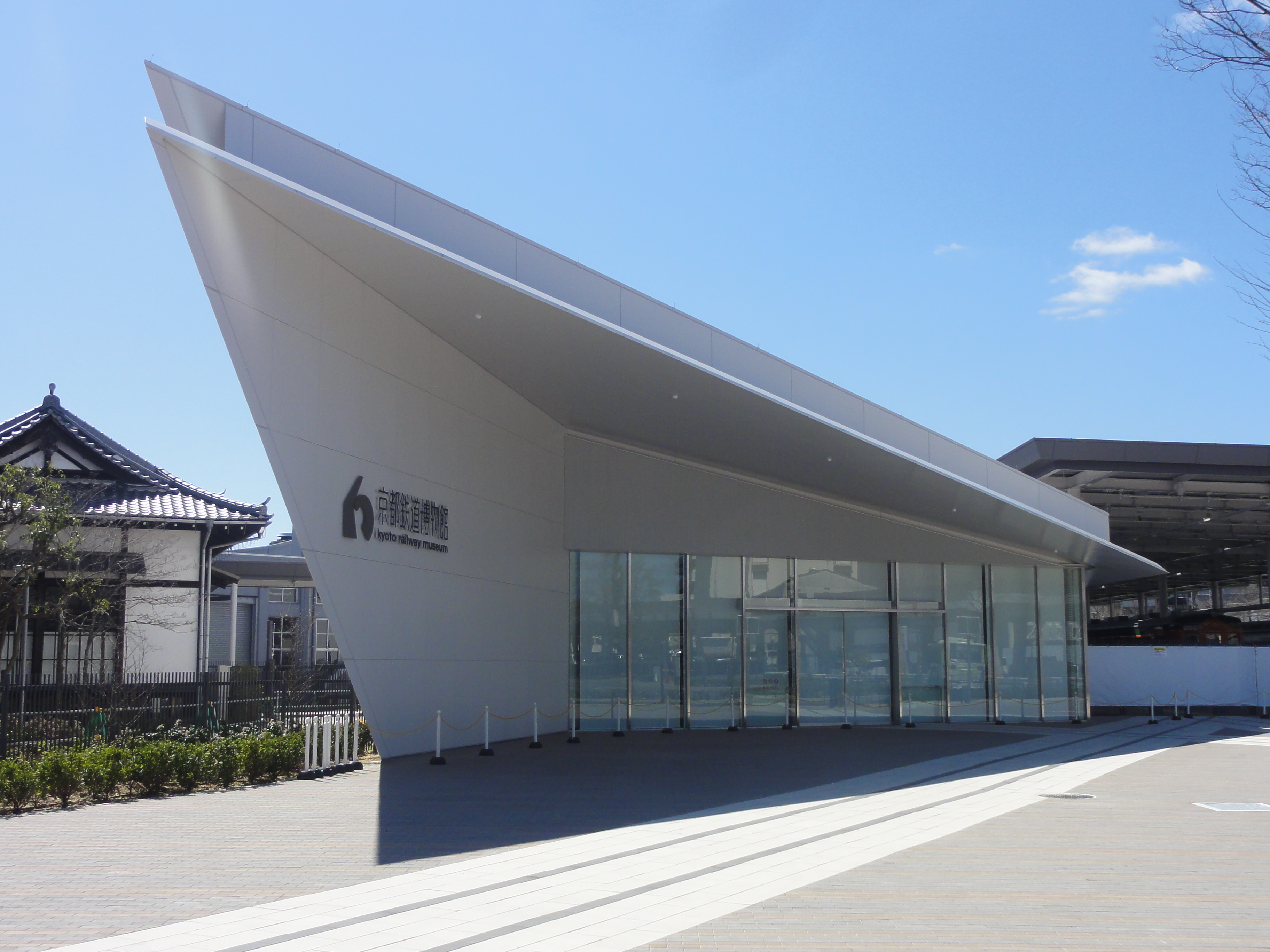 The entrance to the Kyoto Railway Museum